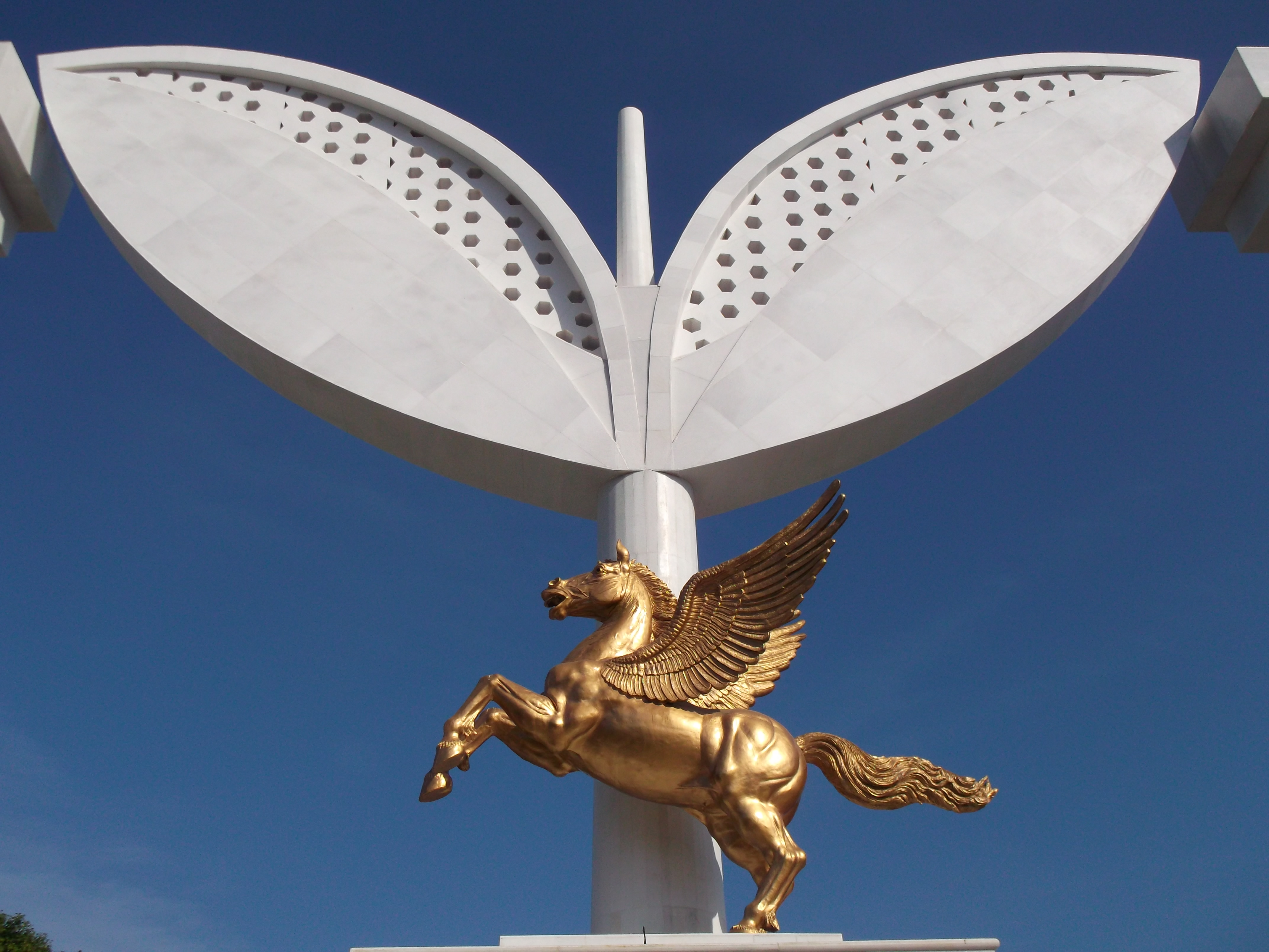 Chennai MGR Memorial, Pegasus and emblem, taken on 2-Feb-2013 at around 4.00 pm